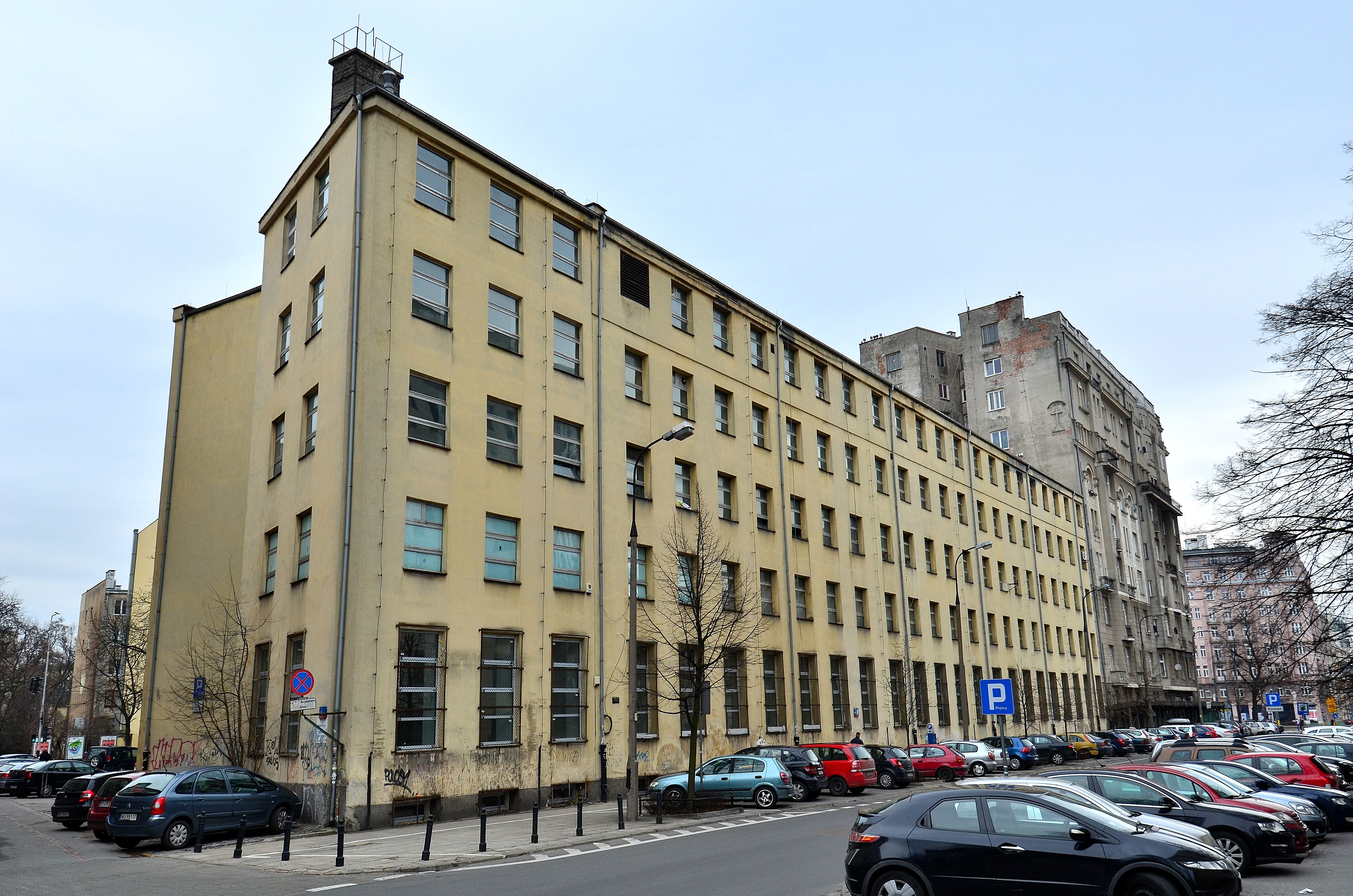 Dom Prasy in Warsaw viewed from Polna Street